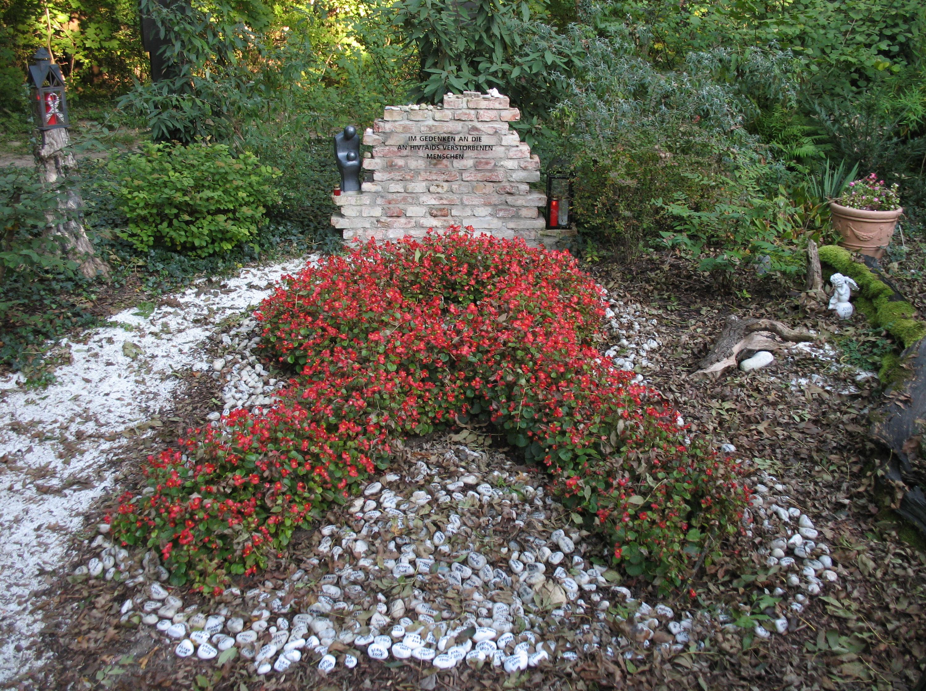 AIDS memorial in Vienna, Austria